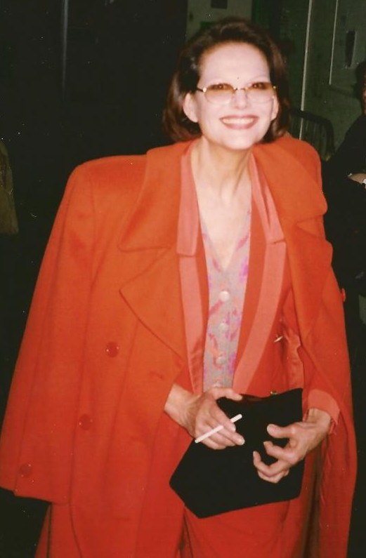 Claudia Cardinale, italian actress.